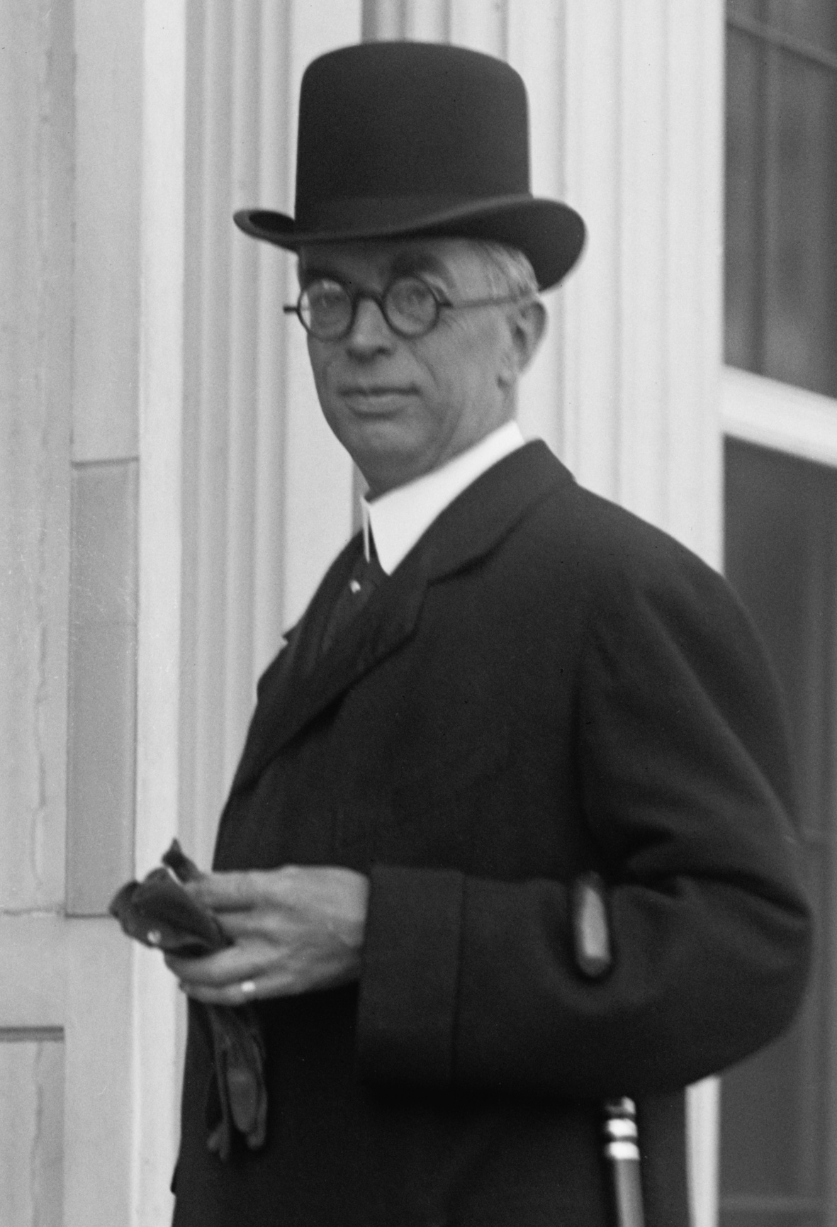 Harvey, George, Col. Editor, Harper's Weekly, etc.; Amb. E. & P. to Great Britain